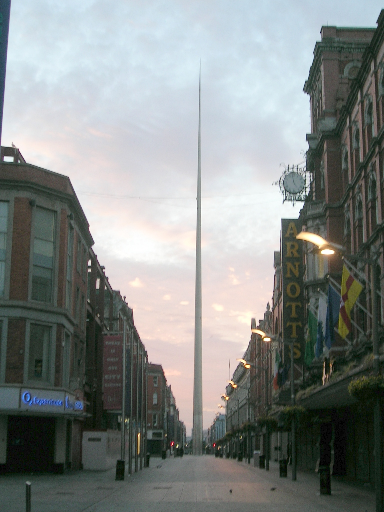 The_Spire_of_Dublin_from_Henry_Street. Own picture, with slight motion blur, taken in the early morning 2006-06-16